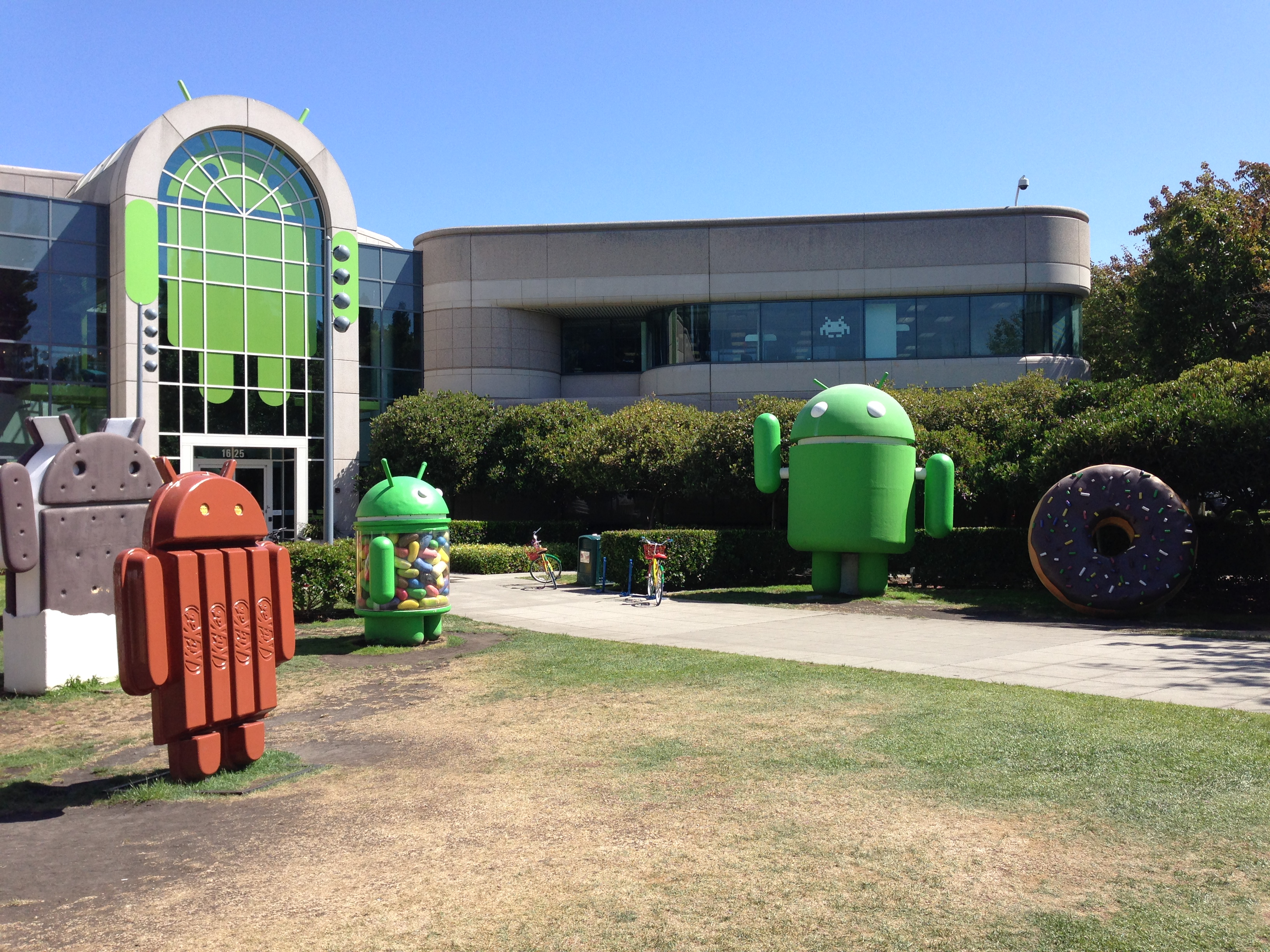 Mountain View, California